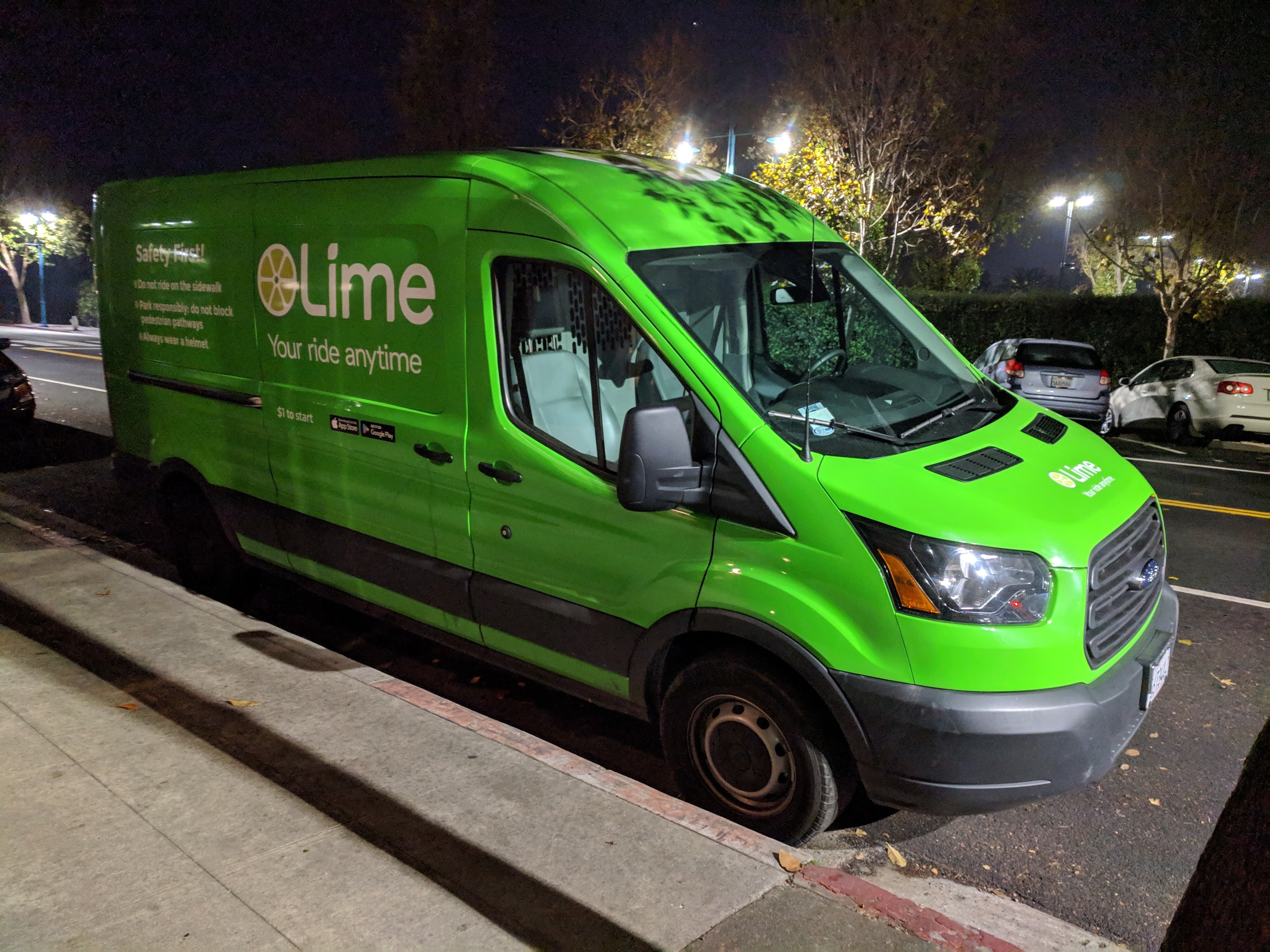 A Ford Transit van operated by LimeBike.